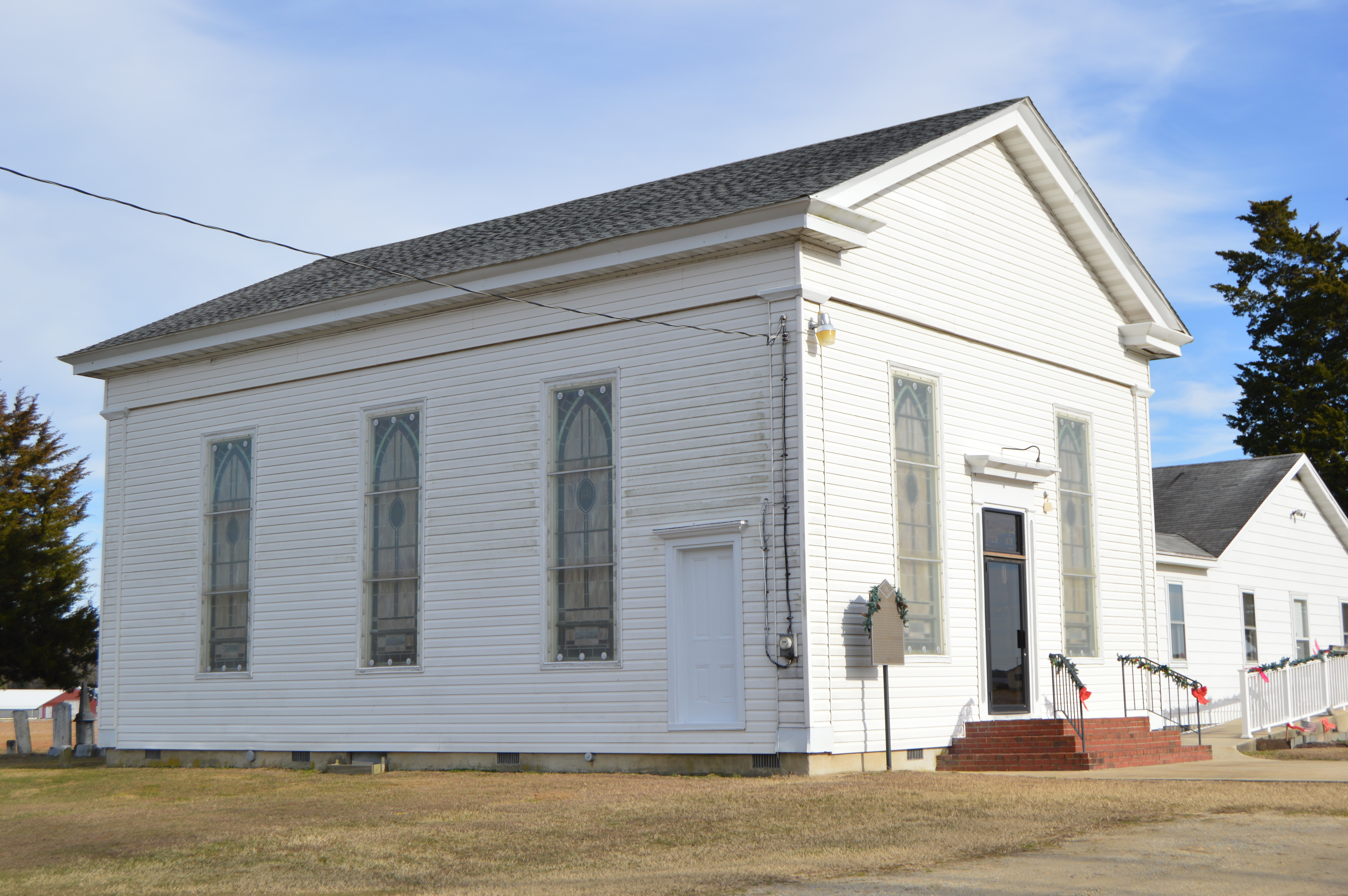 Front and western side of Todd's Chapel, located on Andrewville Road at Andrewville, Delaware, United States. Built in 1858, it is listed on the National Register of Historic Places.